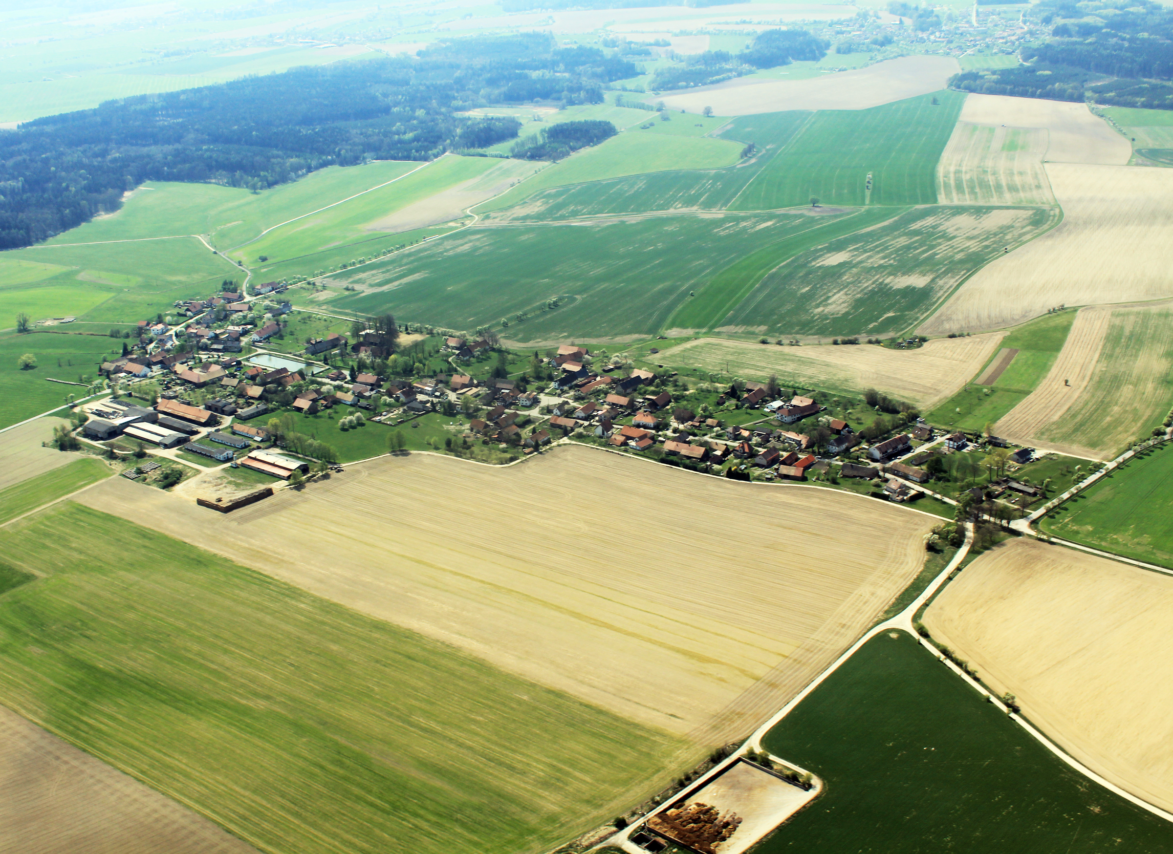 Village Byzhradec in Rychnov nad Kněžnou District from air, eastern Bohemia, Czech Republic